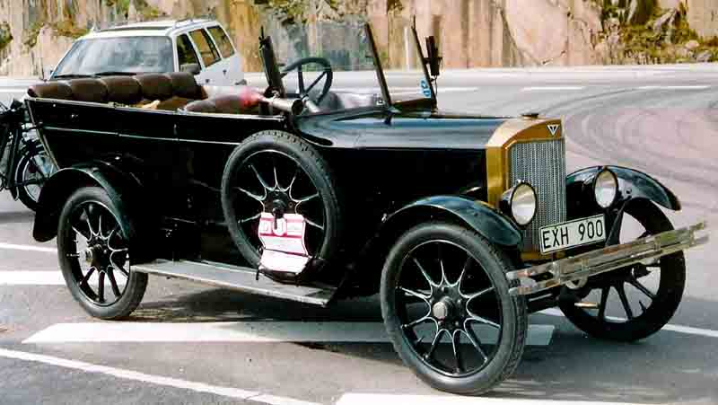 Thulin A25 Phaeton 1925